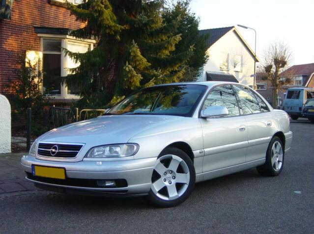 Last edition